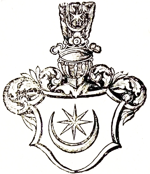 Leliwa Coat of Arms by Kasper Niesiecki, 1740